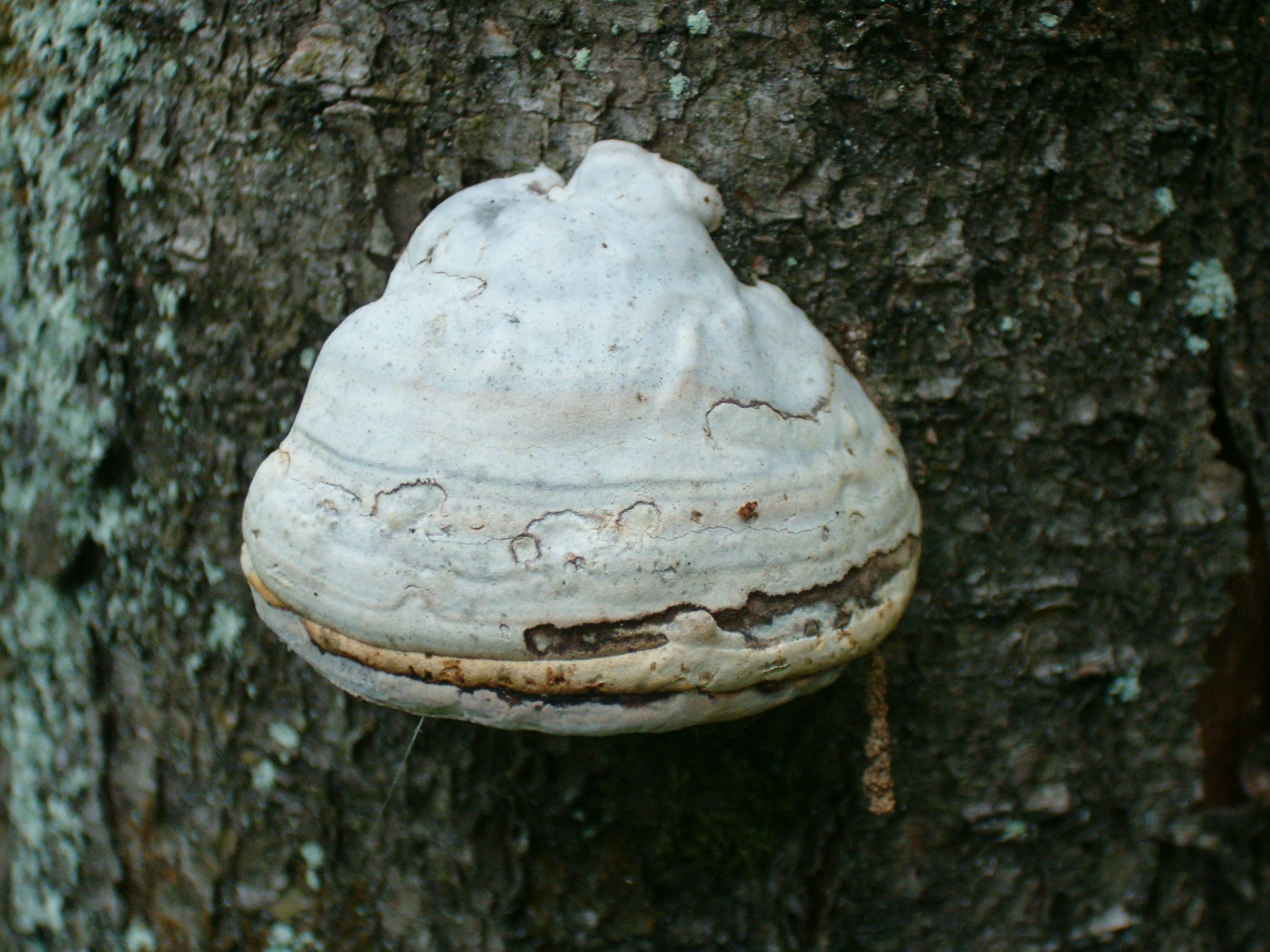 Fomes fomentarius (L.) J. Kickx f. Location: Forest near Elgin St., Pembroke, Ontario, Canada Observation Notes: On a Betula papyrifera snag in Zone 08. Zone 08 is a fairly open pine woods with scattered Acer rubrum and Betula papyrifera and a dense underbrush of hazel and wild raspberry, with occasional other shrubs mixed in. For more information about this, see the observation page at Mushroom Observer.